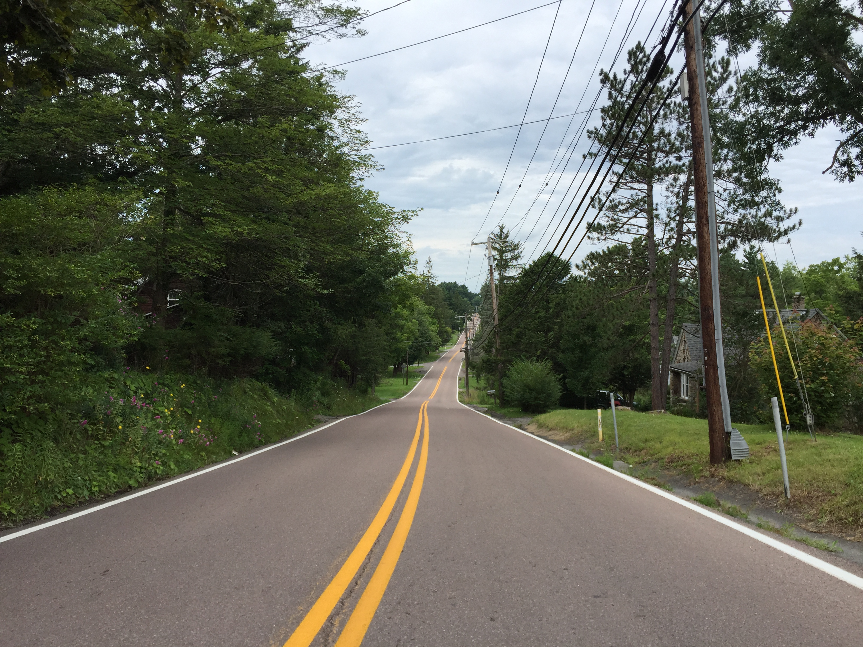 View west along Maryland State Route 825 (Oakland Drive) at Deer Park Avenue in Mountain Lake Park, Garrett County, Maryland